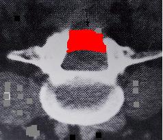 CT scan image showing superimposed scar in laminectomy